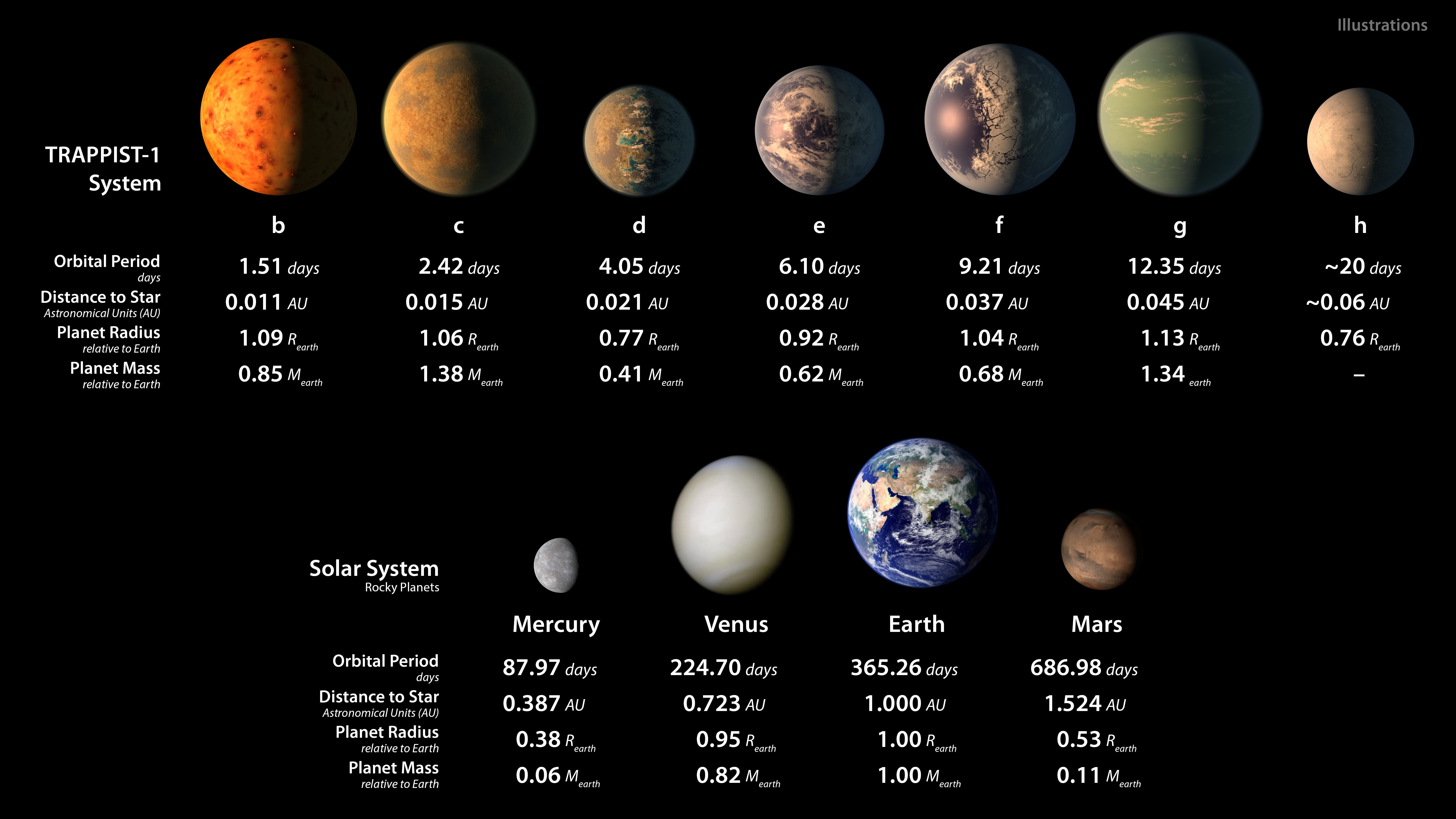 This chart shows, on the top row, artist concepts of the seven planets of TRAPPIST-1 with their orbital periods, distances from their star, radii and masses as compared to those of Earth. On the bottom row, the same numbers are displayed for the bodies of our inner solar system: Mercury, Venus, Earth and Mars. The TRAPPIST-1 planets orbit their star extremely closely, with periods ranging from 1.5 to only about 20 days. This is much shorter than the period of Mercury, which orbits our sun in about 88 days. The artist concepts show what the TRAPPIST-1 planetary system may look like, based on available data about their diameters, masses and distances from the host star. The system has been revealed through observations from NASA's Spitzer Space Telescope and the ground-based TRAPPIST (TRAnsiting Planets and PlanetesImals Small Telescope) telescope, as well as other ground-based observatories. The system was named for the TRAPPIST telescope. The seven planets of TRAPPIST-1 are all Earth-sized and terrestrial, according to research published in 2017 in the journal Nature. TRAPPIST-1 is an ultra-cool dwarf star in the constellation Aquarius, and its planets orbit very close to it. NASA's Jet Propulsion Laboratory, Pasadena, California, manages the Spitzer Space Telescope mission for NASA's Science Mission Directorate, Washington. Science operations are conducted at the Spitzer Science Center at Caltech, also in Pasadena. Spacecraft operations are based at Lockheed Martin Space Systems Company, Littleton, Colorado. Data are archived at the Infrared Science Archive housed at Caltech/IPAC. Caltech manages JPL for NASA. For more information about the Spitzer mission, visit and